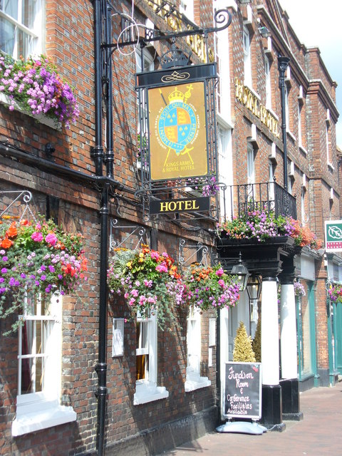 Kings Arms, Godalming The Kings Arms and Royal Hotel has been patronized by the Czar of Russia who passed this way while researching on building a navy (he visited Portsmouth).